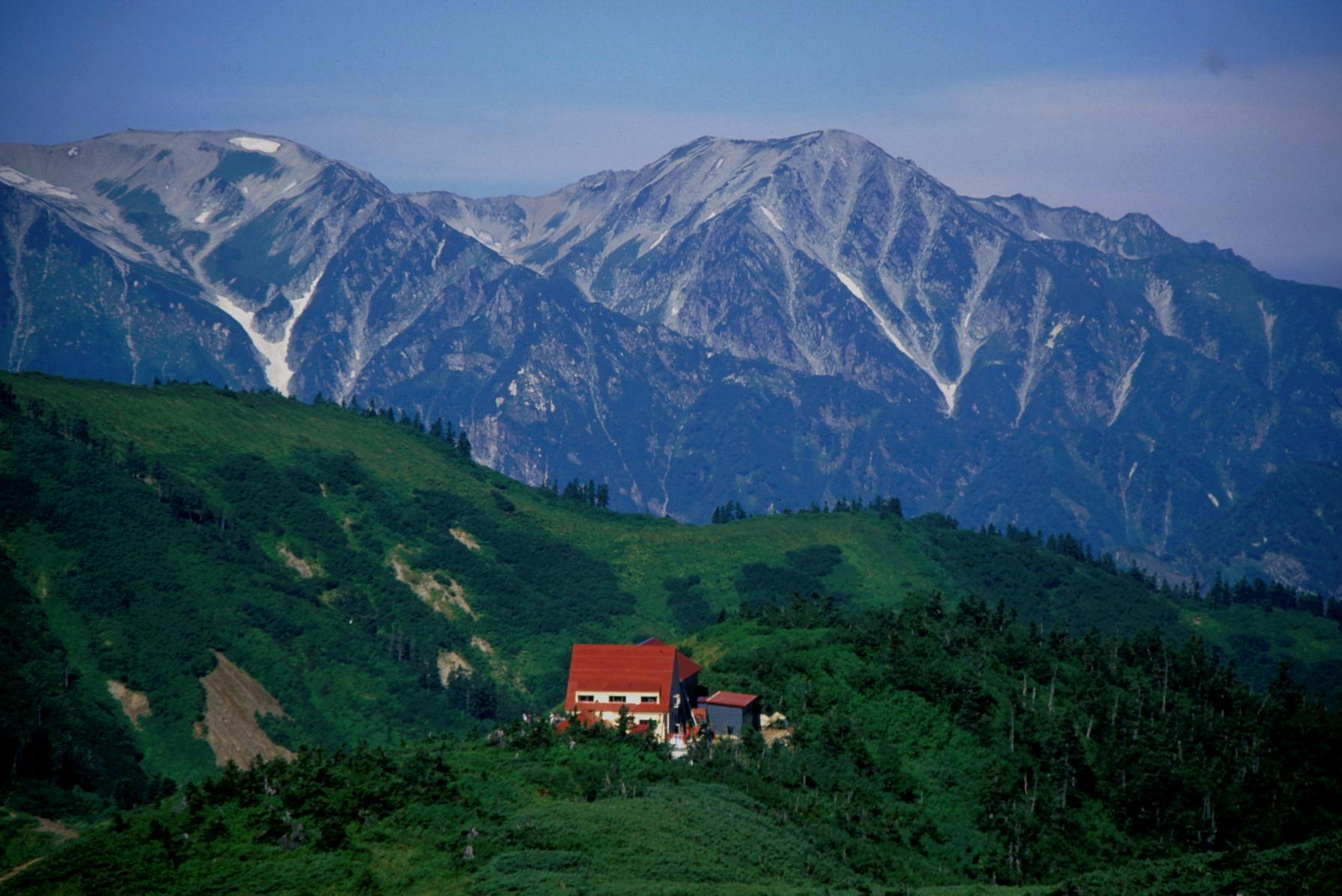 Mount Betsu (Bessan), Mount Basago and Mountain huts (Taneike-sansō) seen from Mount Jii, in Hida Mountains, Japan.